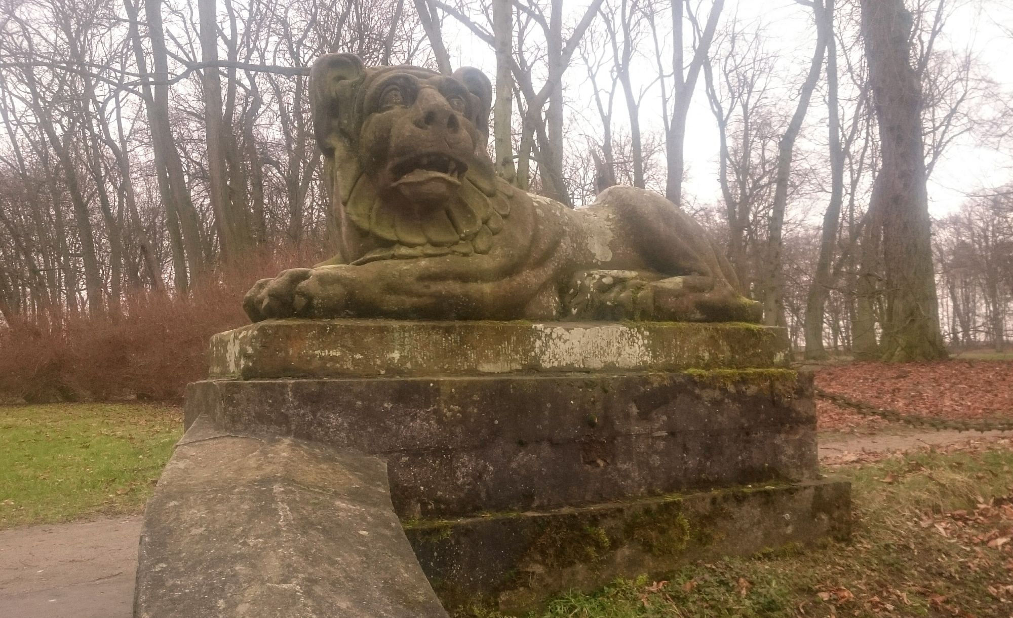 Sculpture of the lion in the Oporów castle-park.